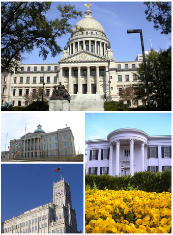 by Allstarecho by Matt Howry by Michlaovic by Charlie Brenner